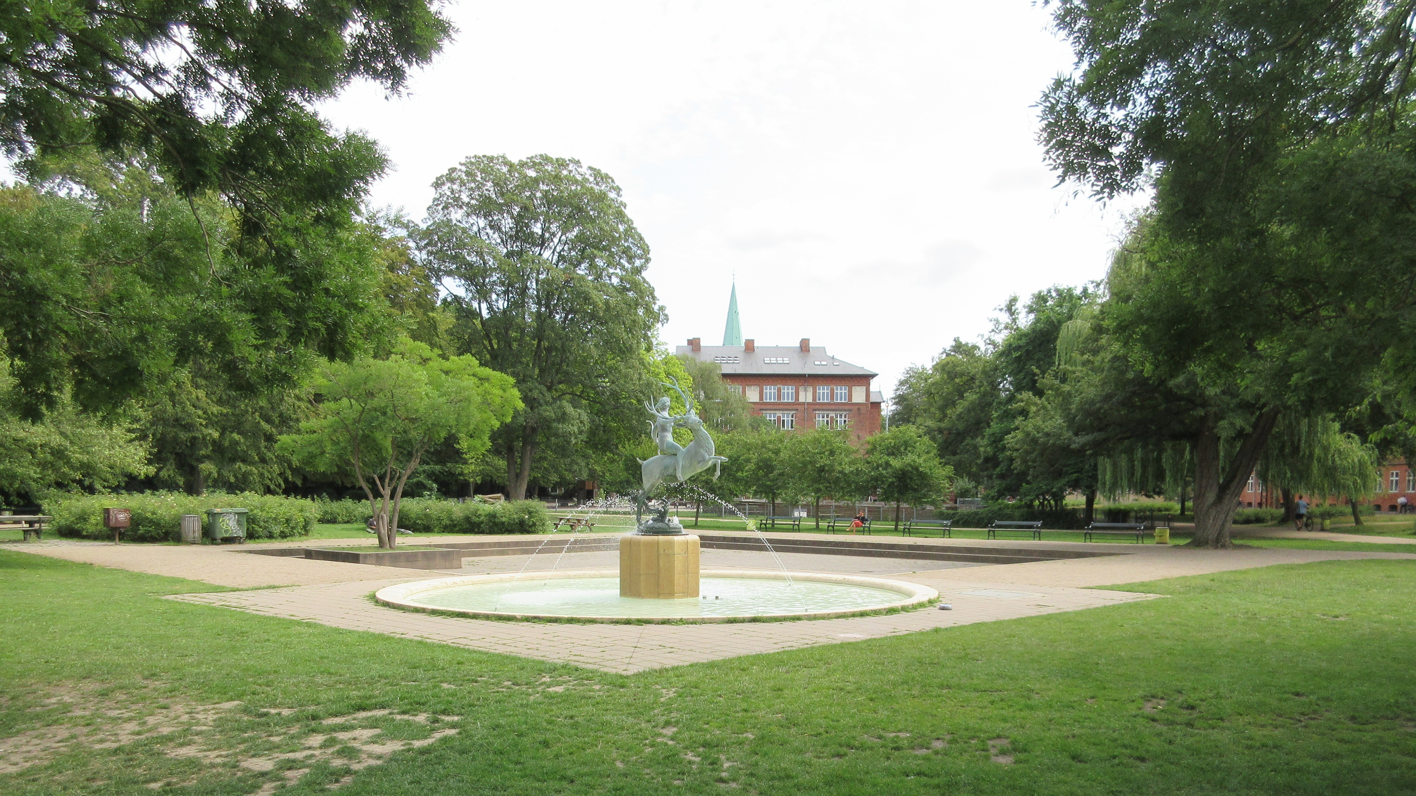 hHans Tavsens Plads in Copenhagen, Denmark